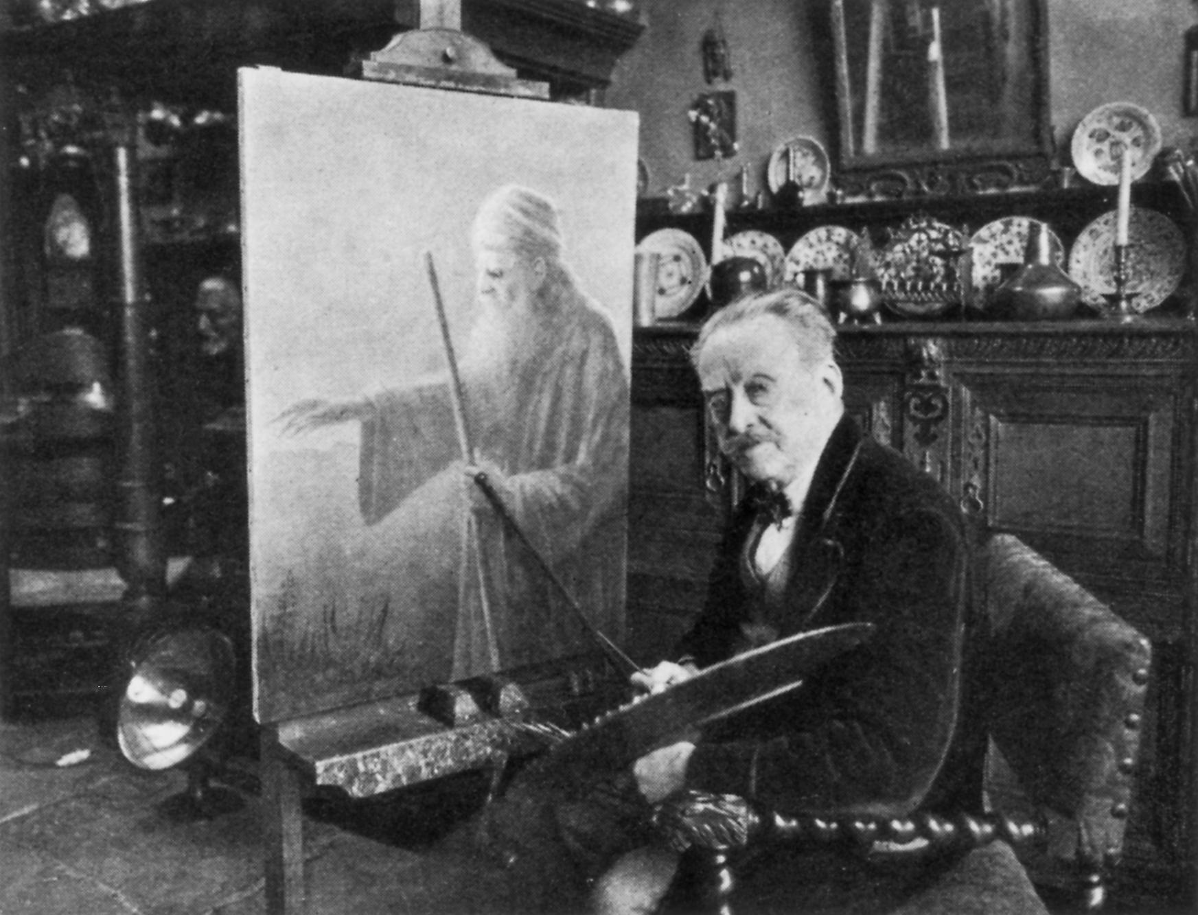 Photograph of Benjamin L. Prins in his studio, sitting near painting of the prophet Moses.